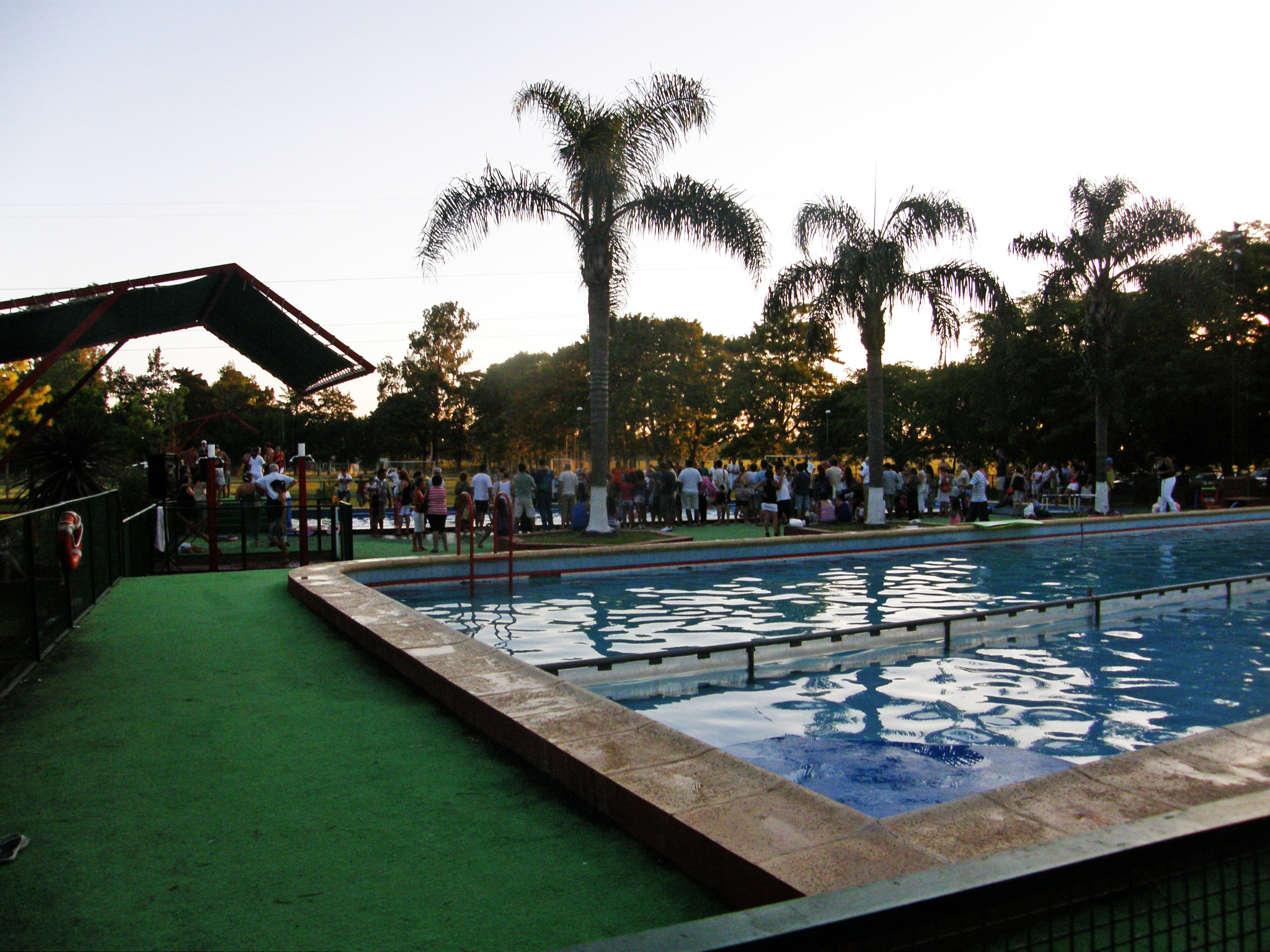 Predio La Tatenguita - Club Atlético Unión de Santa Fe